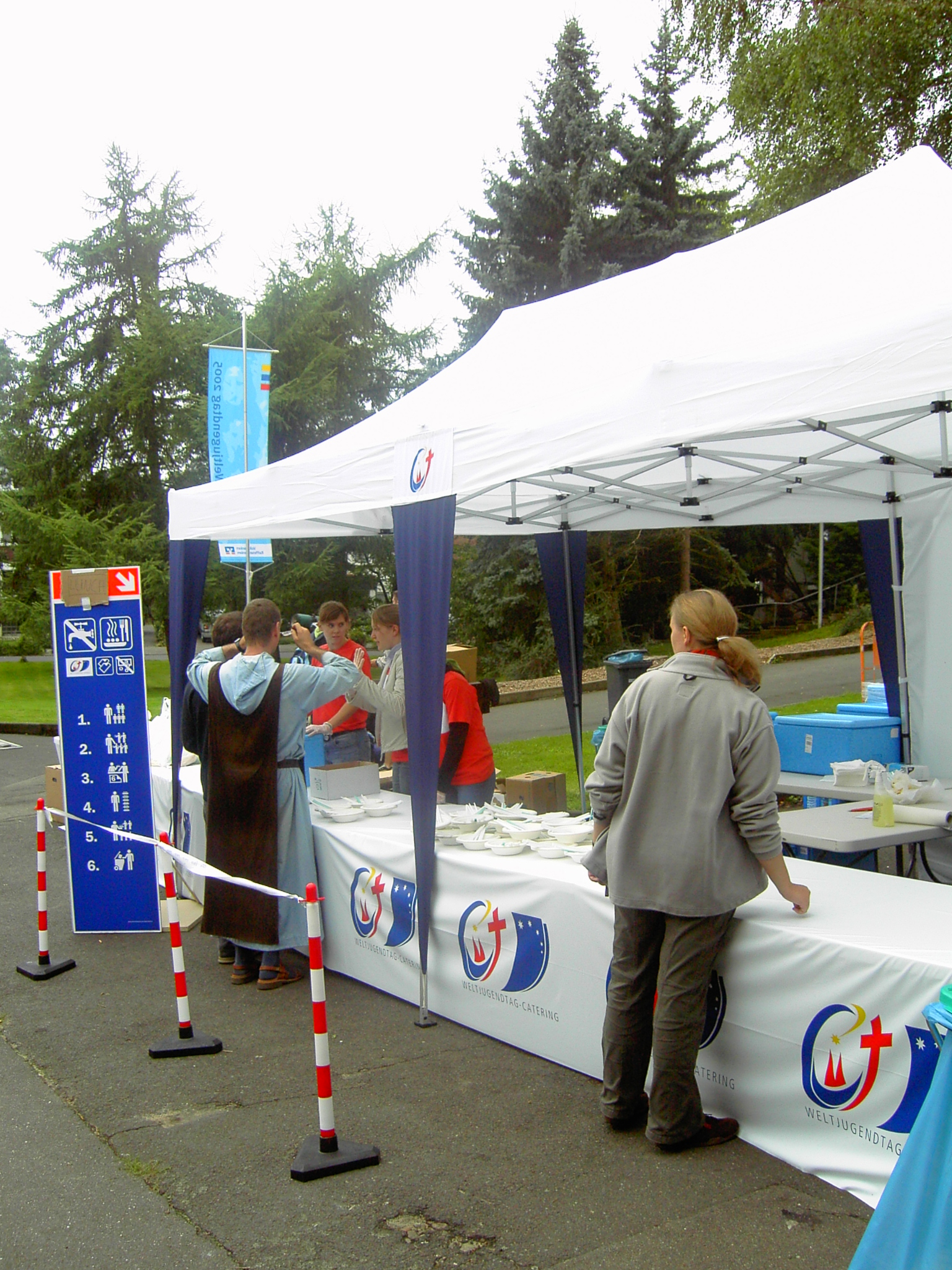 A mobile Restaurant at the WYD 2005 (Cologne). Photo taken at Siegburg-Kaldauen.